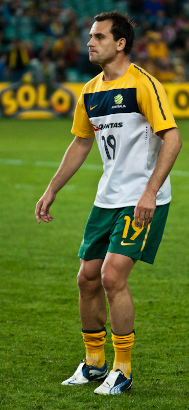 Richard Garcia representing the Australian national football team against Paraguay at the Sydney Football Stadium.